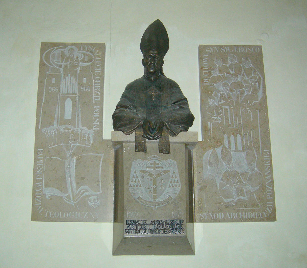 Tomb of bishop of Poznań Antoni Baraniak.